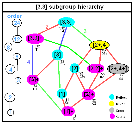 3D point symmetry subgroup hierarchy